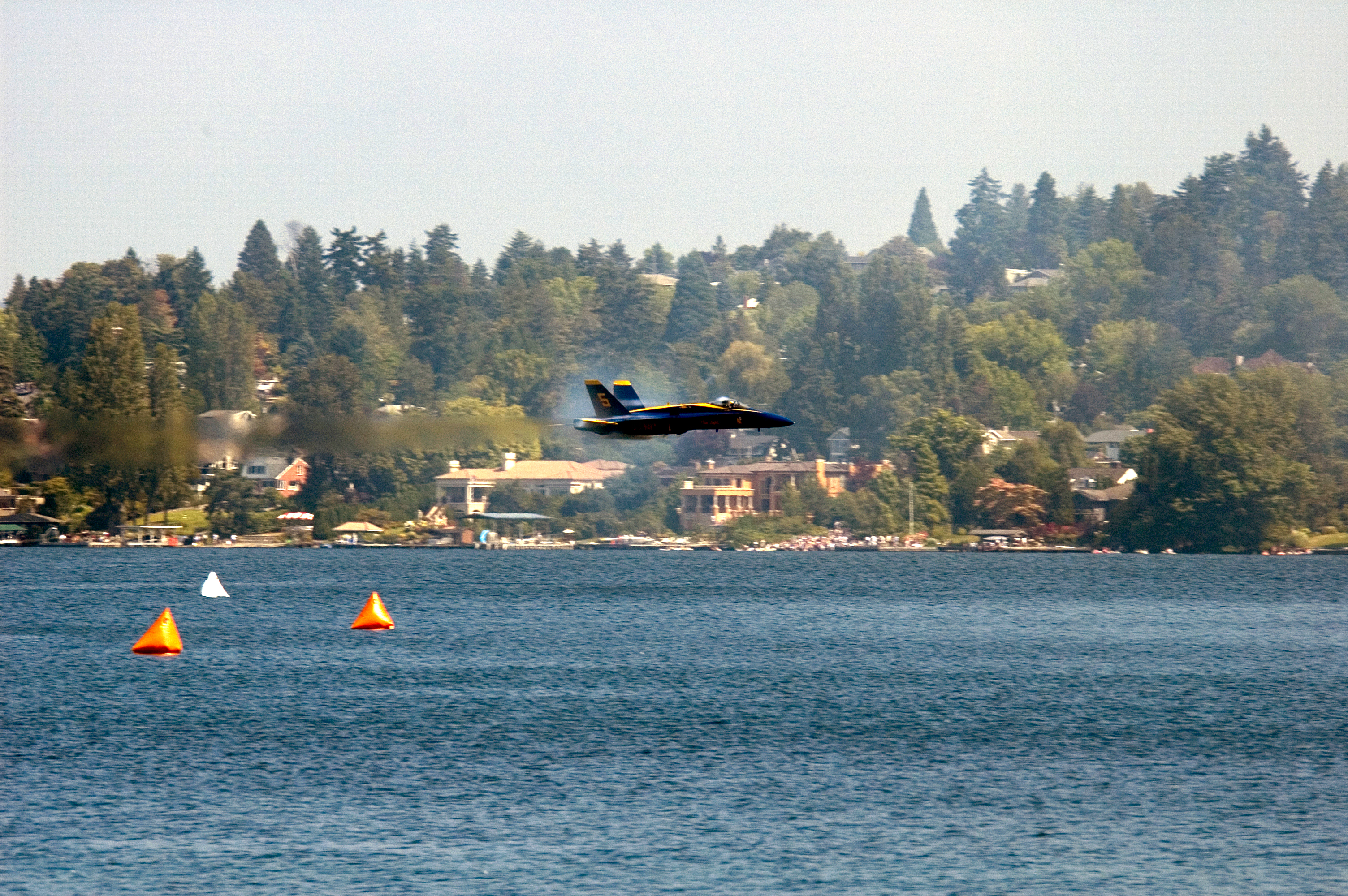 Seattle (Aug. 6, 2005) – The lead solo pilot assigned to the U.S. Navy flight demonstration team, the "Blue Angels," conducts a high-speed, low level pass over Lake Washington during Seattle Seafair events in Seattle, Wash. The Blue Angels fly the F/A-18A Hornet, performing approximately 30 maneuvers during the aerial demonstration lasting over an hour. Seafair is Seattle's month-long traditional summer festival, which includes parades, amateur athletics, air shows and boat racing. U.S. Navy photo by Photographer's Mate 3rd Class Douglas G. Morrison (RELEASED)